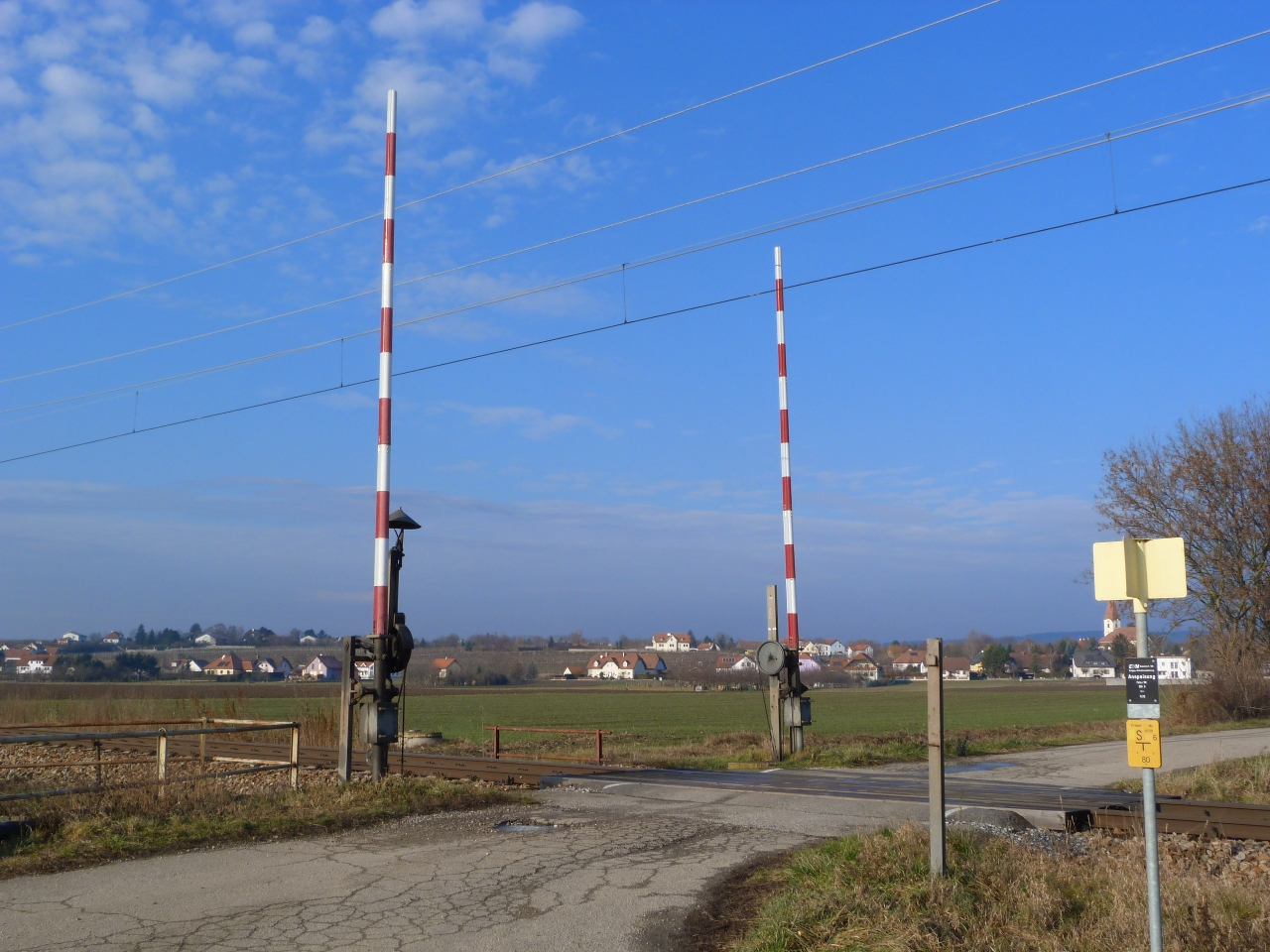 Railroad barriers, Fels (Austria), 2012